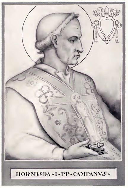 This illustration is from The Lives and Times of the Popes by Chevalier Artaud de Montor, New York: The Catholic Publication Society of America, 1911. It was originally published in 1842.